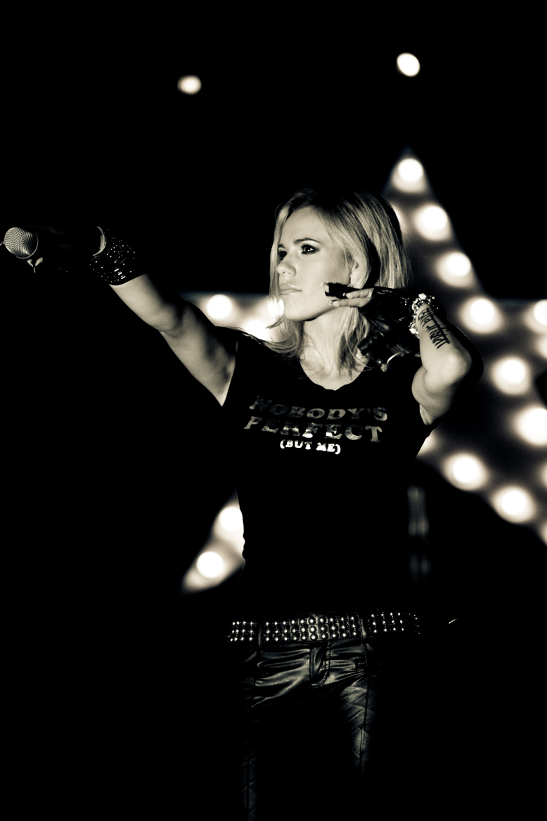 Polish singer Dorota "Doda" Rabczewska